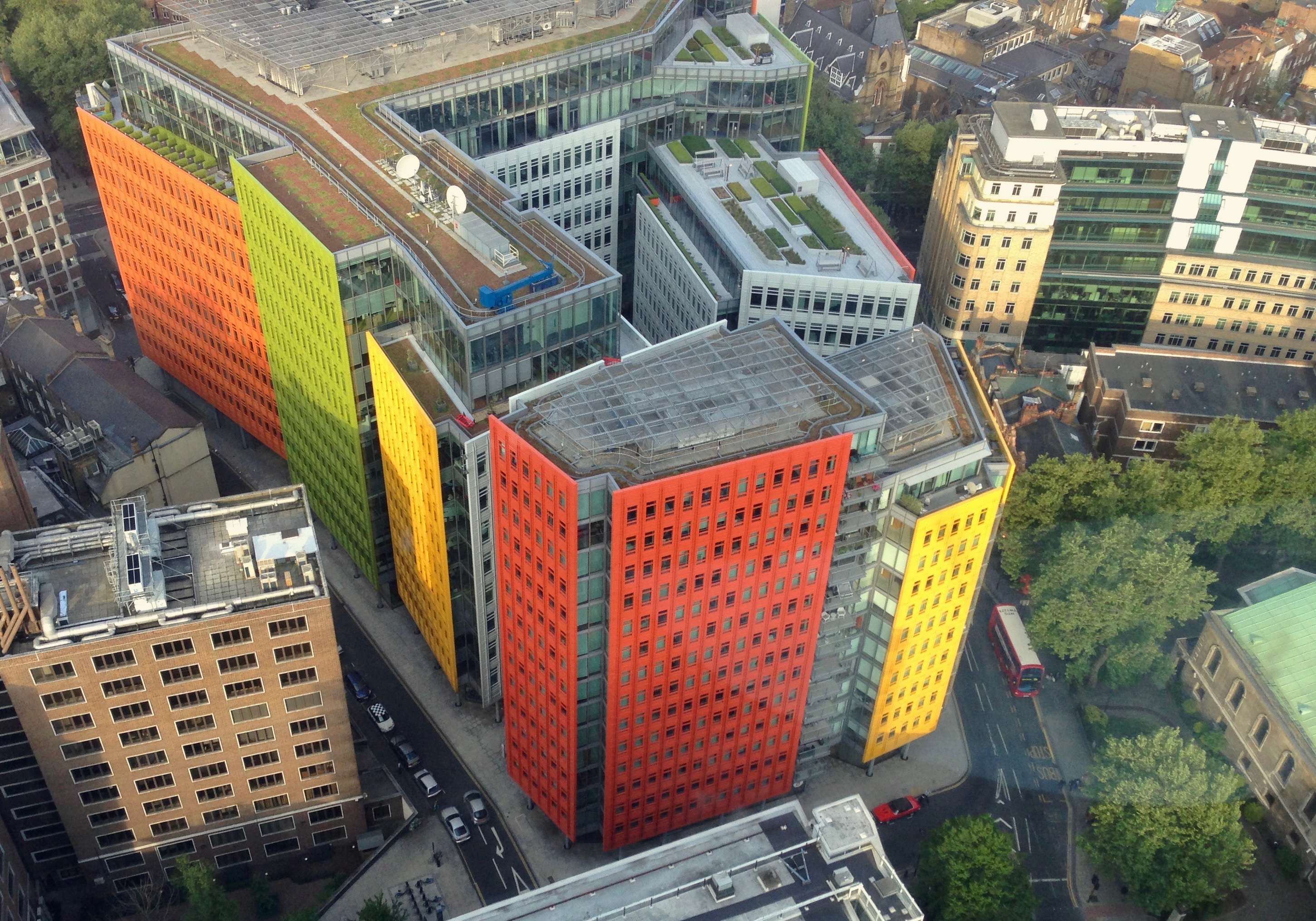 An top view to the Central Saint Giles building and roof, as seen from the Centre Point Observation Deck in London.